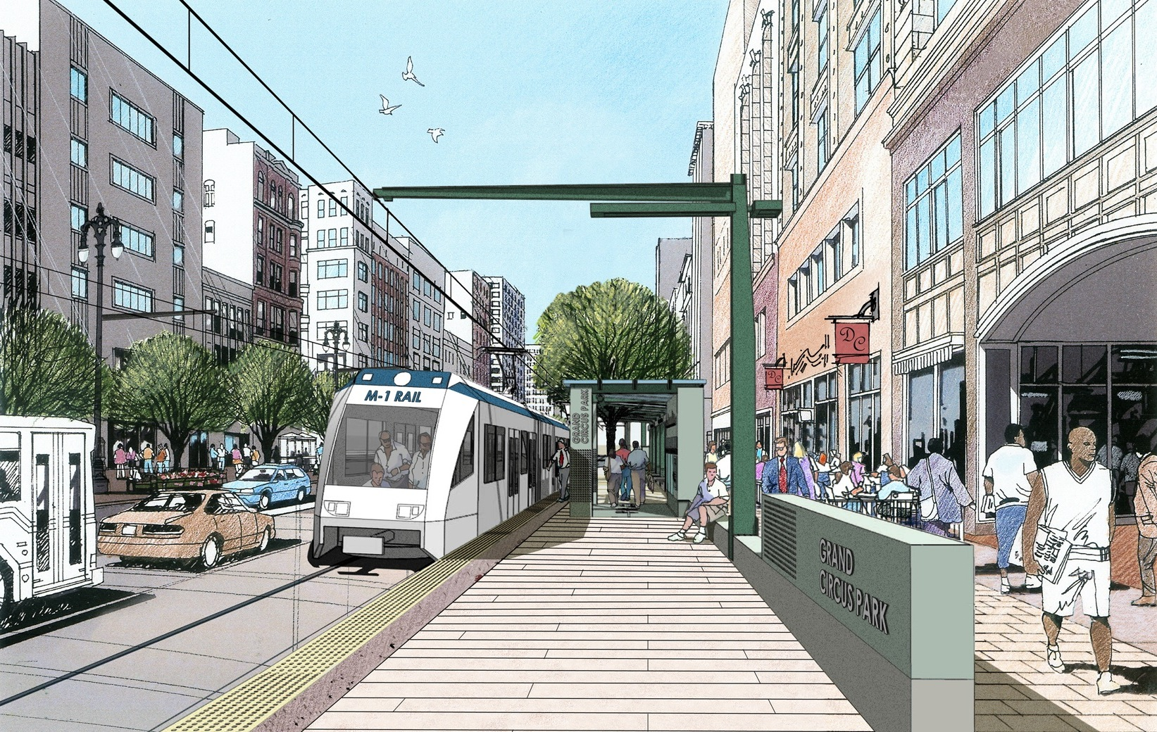 Artist's rendering of a proposed light rail line along M-1 (Woodward Avenue) in Detroit, Michigan, showing a station at Grand Circus Park